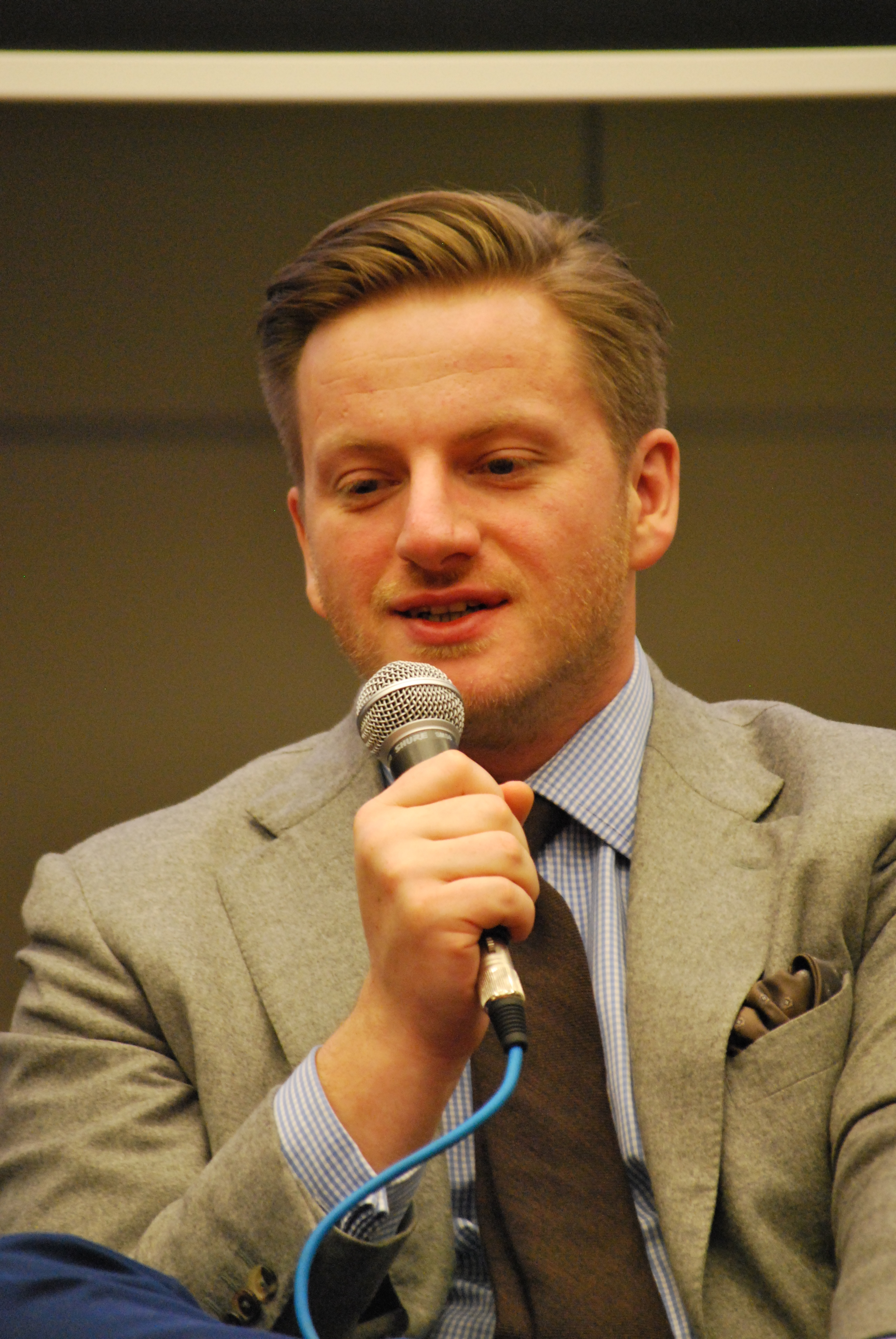 Szczepan Twardoch, Festival of Comics in Łódź 2012